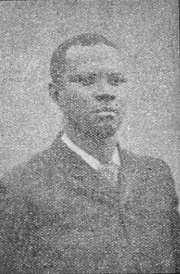 Photograph of Joseph D. Summerville, 15th President of Liberia.